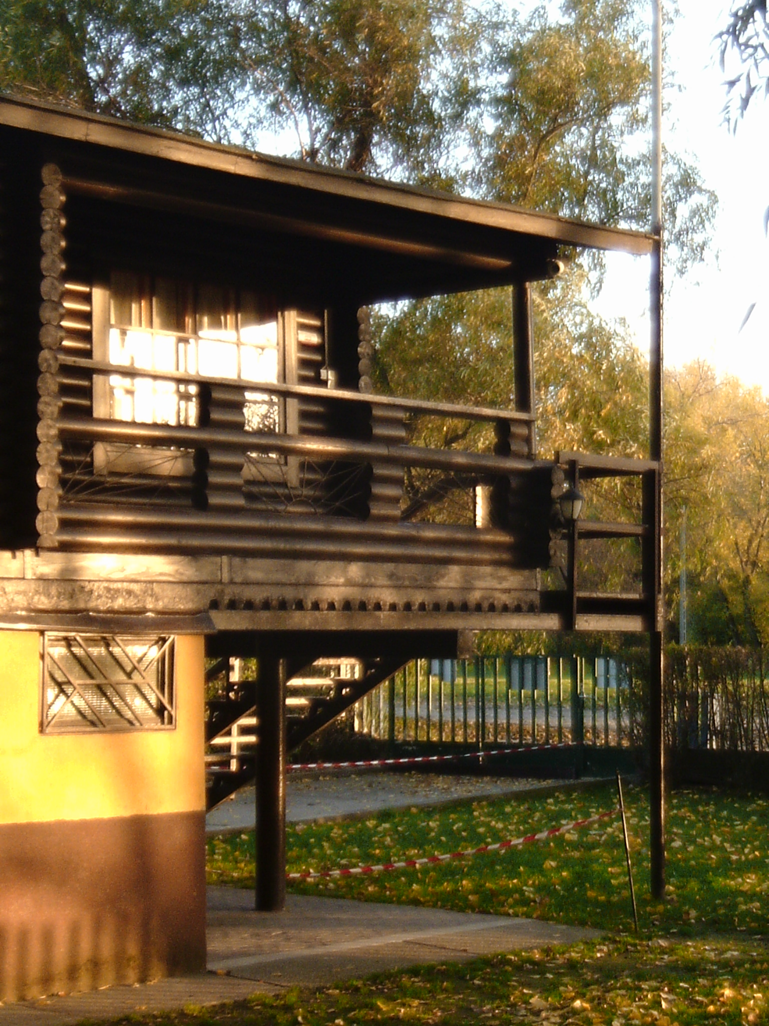 Szalki-sziget, Dunaujvaros, Hungary